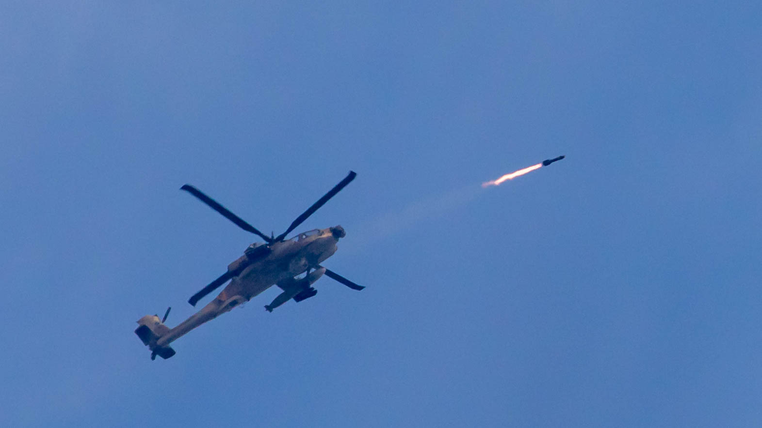 Israeli Air Force Boeing AH-64 Apache Peten launch AGM-114 Hellfire missile , Gaza–Israel clashes (November 2018). here is the video capturing the moment of the same missile in the picture hit the terror cell of rocket launchers in action, from Gaza. Breaking News - IDF attacks terror cell east of Deir al-Balah